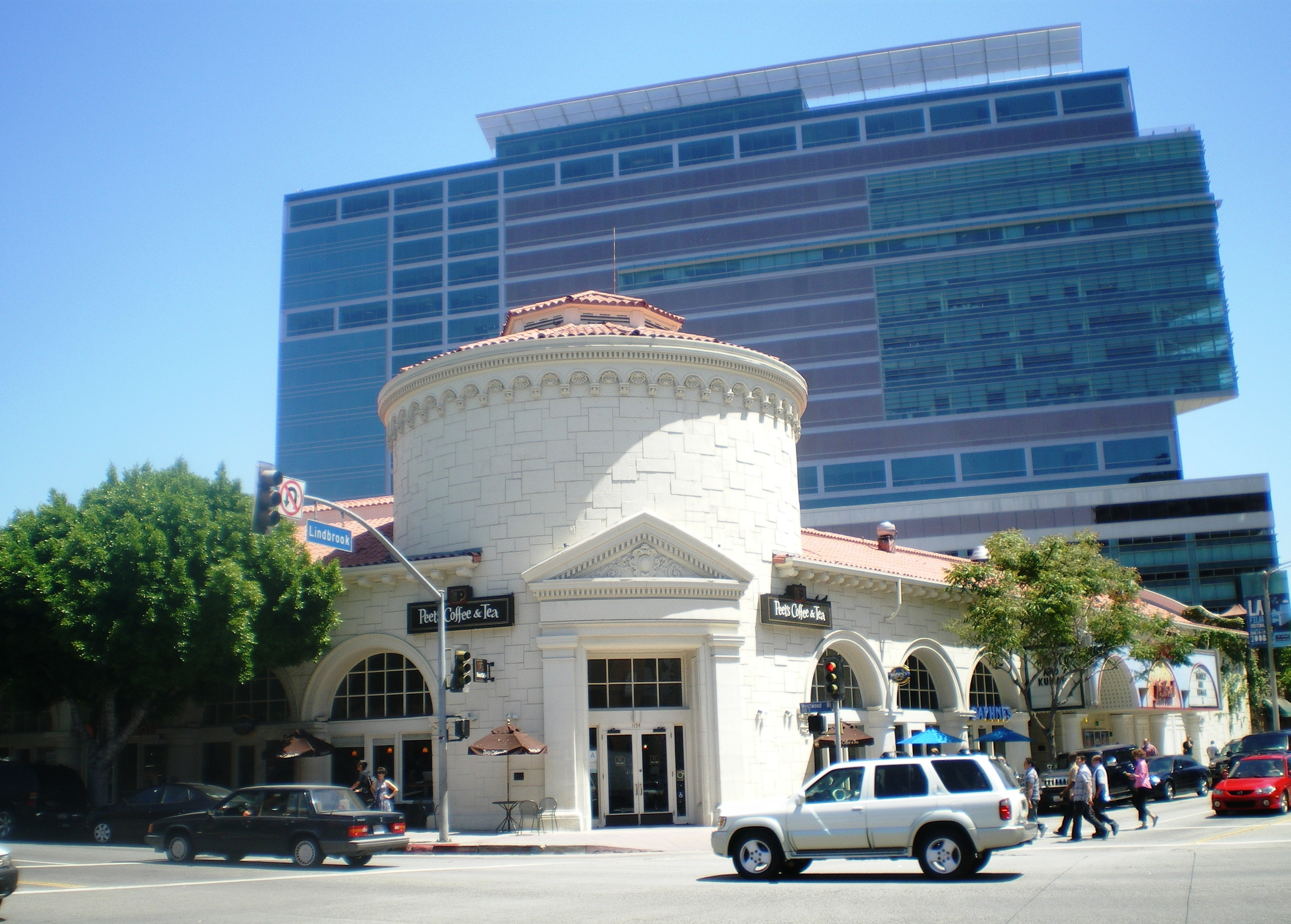 Former site of Ralphs Grocery Store, Westwood Village, Los Angeles, California (building listed in National Register of Historic Places)